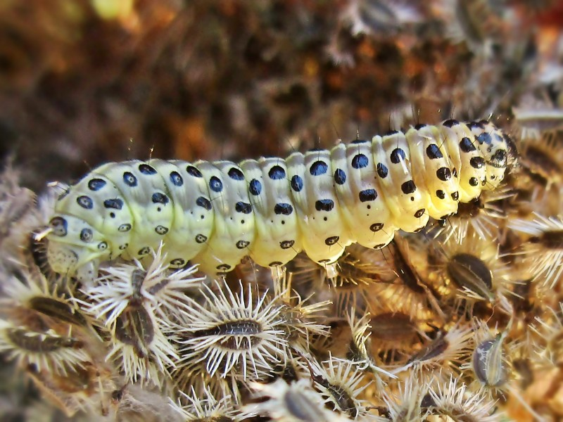 Sitochroa palealis (Crambidae) - (caterpillar), Elst (Gld) - De Park, the Netherlands